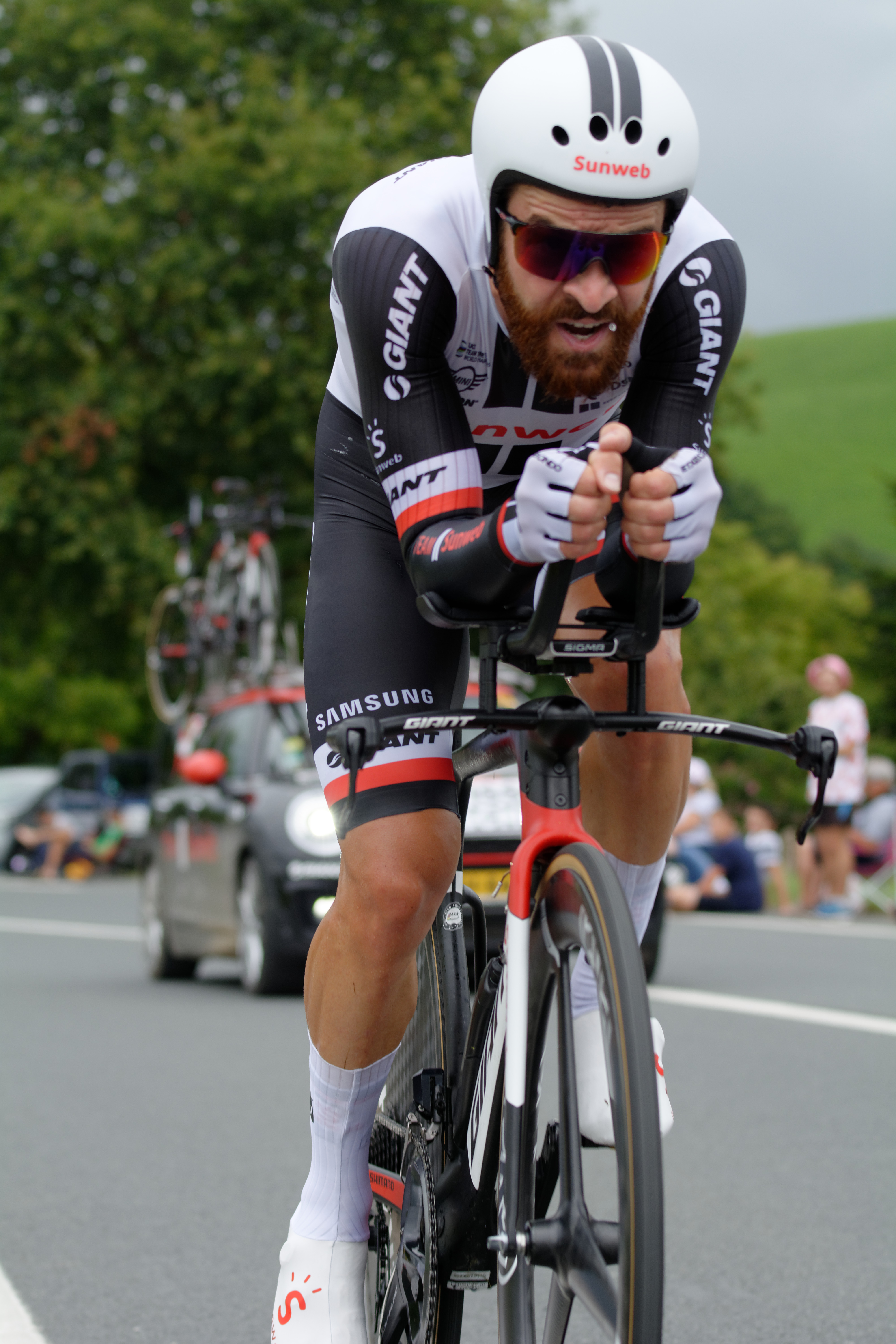 2018 Tour de France